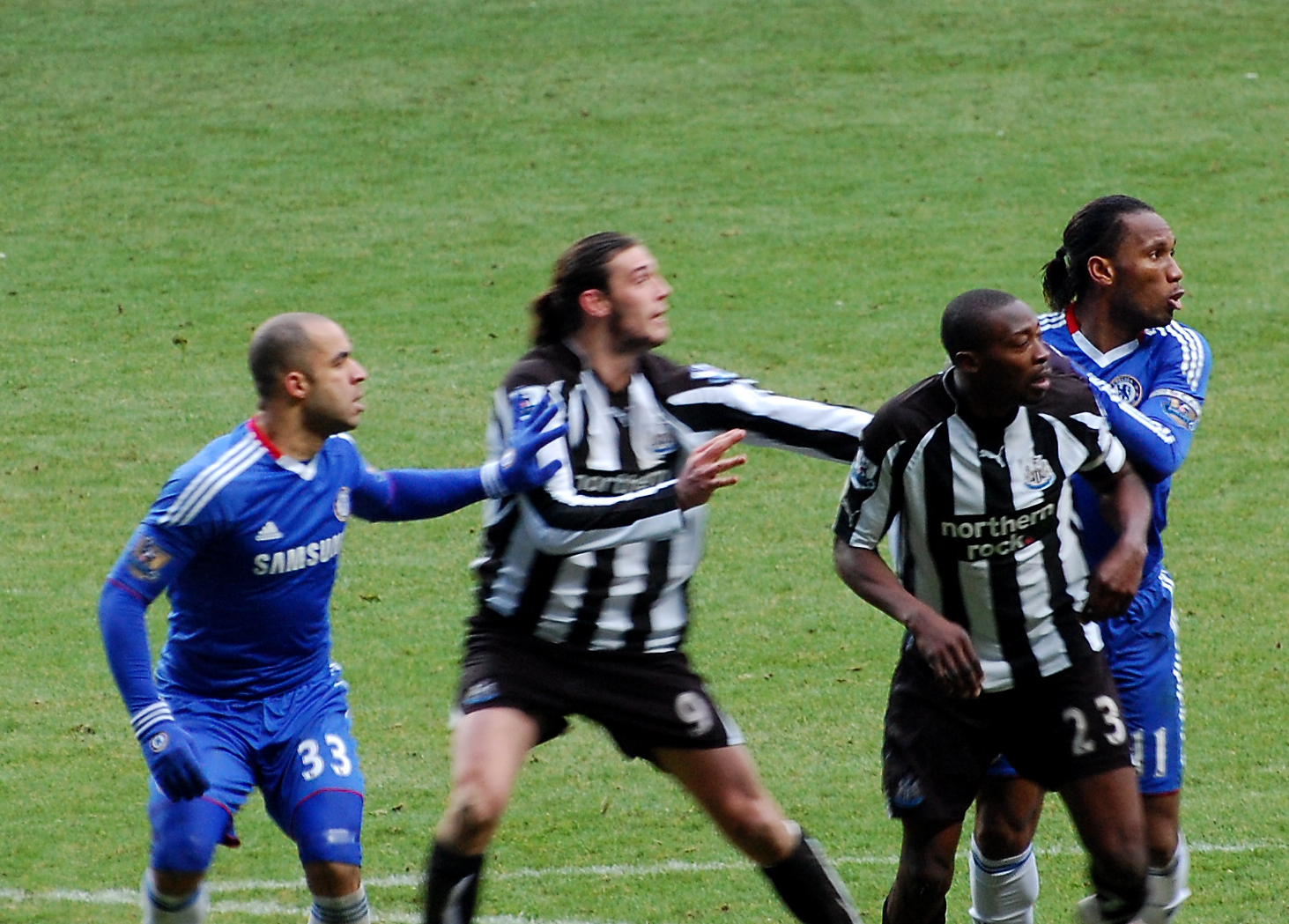 Andy Carroll and Didier Drogba watch for the ball coming in